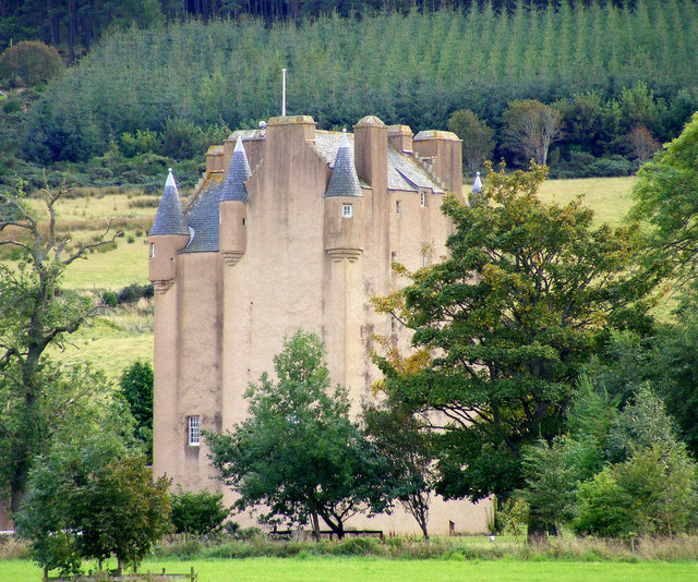 Harthill Castle